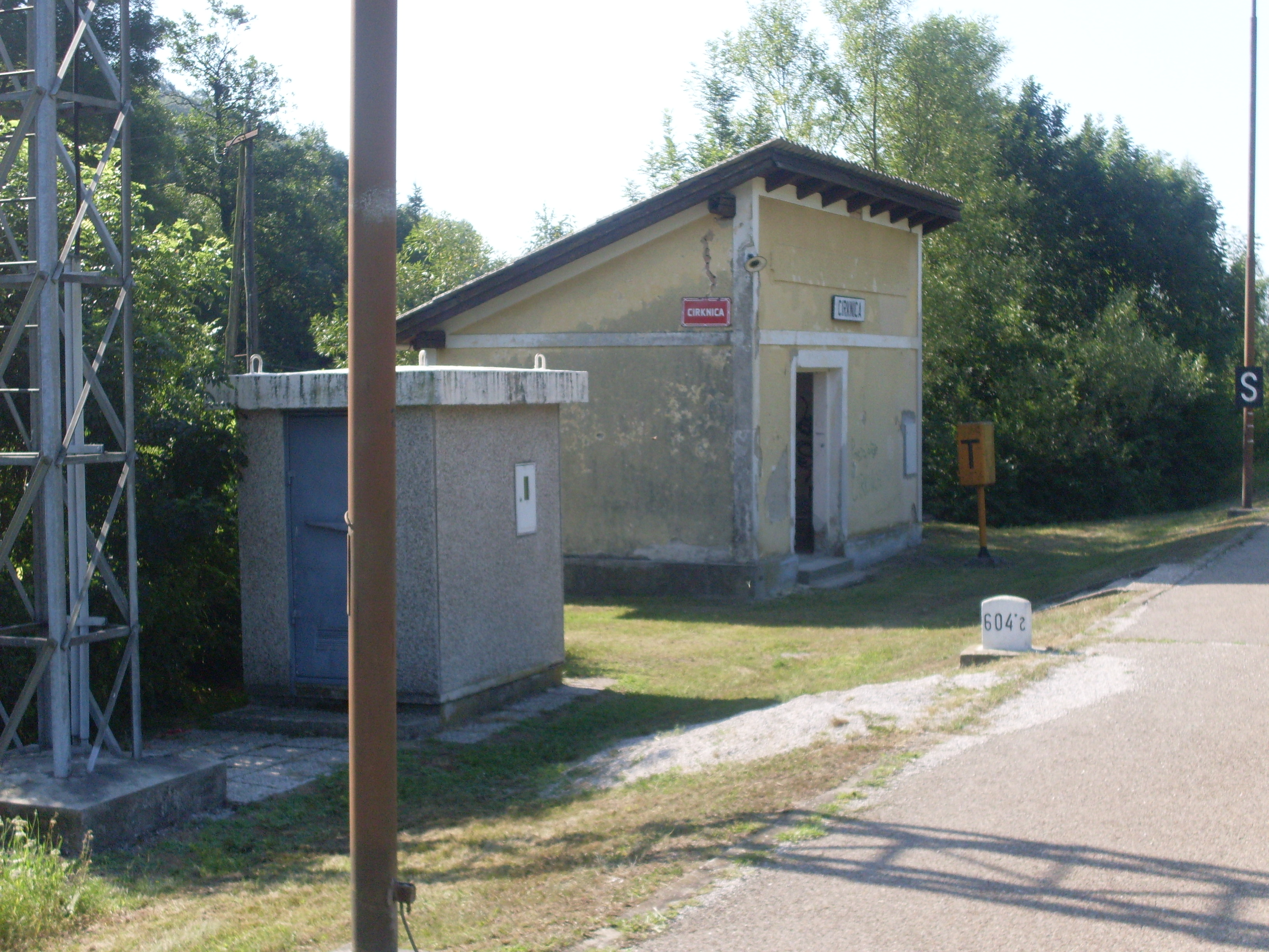 Railway halt Cirknica, actually located in KanižaSlovenščina: Železniško postajališče Cirknica, paravzaprav se nahaja v Kaniži